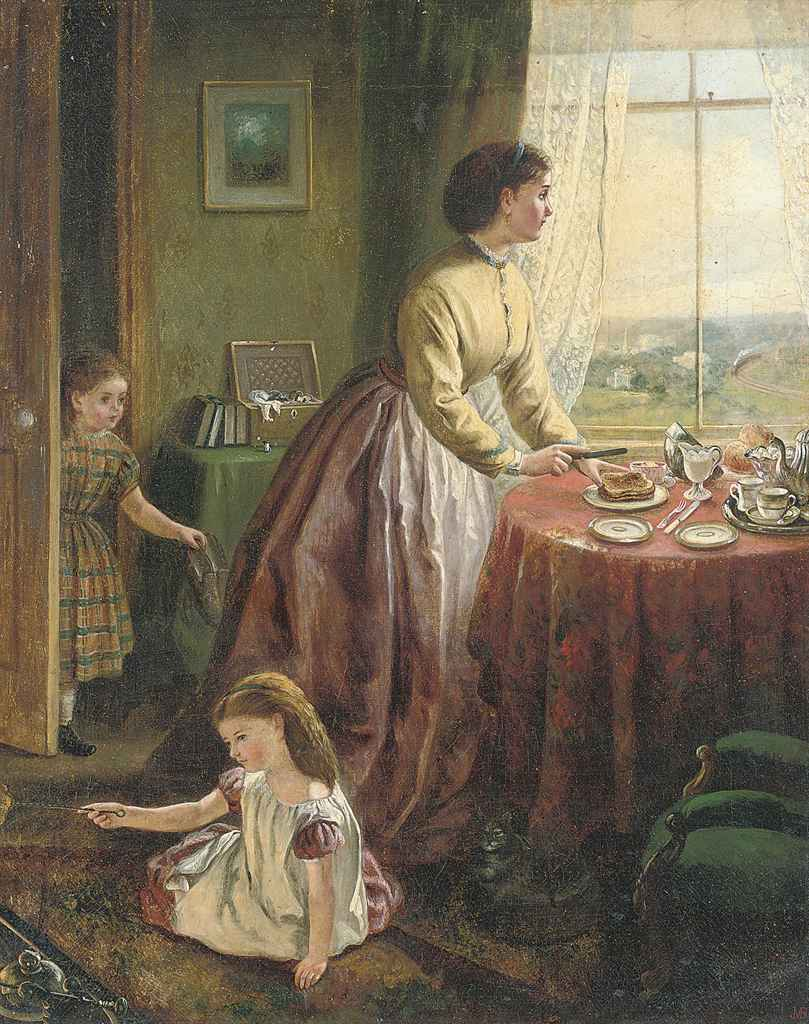 A photograph from an auction catalogue of a painting by Jane Maria Bowkett (1837-1891). Signed with a monogram (lower right). Oil on canvas. It was originally titled ‘Preparing Tea’ and thought to have been painted in the 1860s. It was retitled ‘Time for tea’ at the auction in 2011.